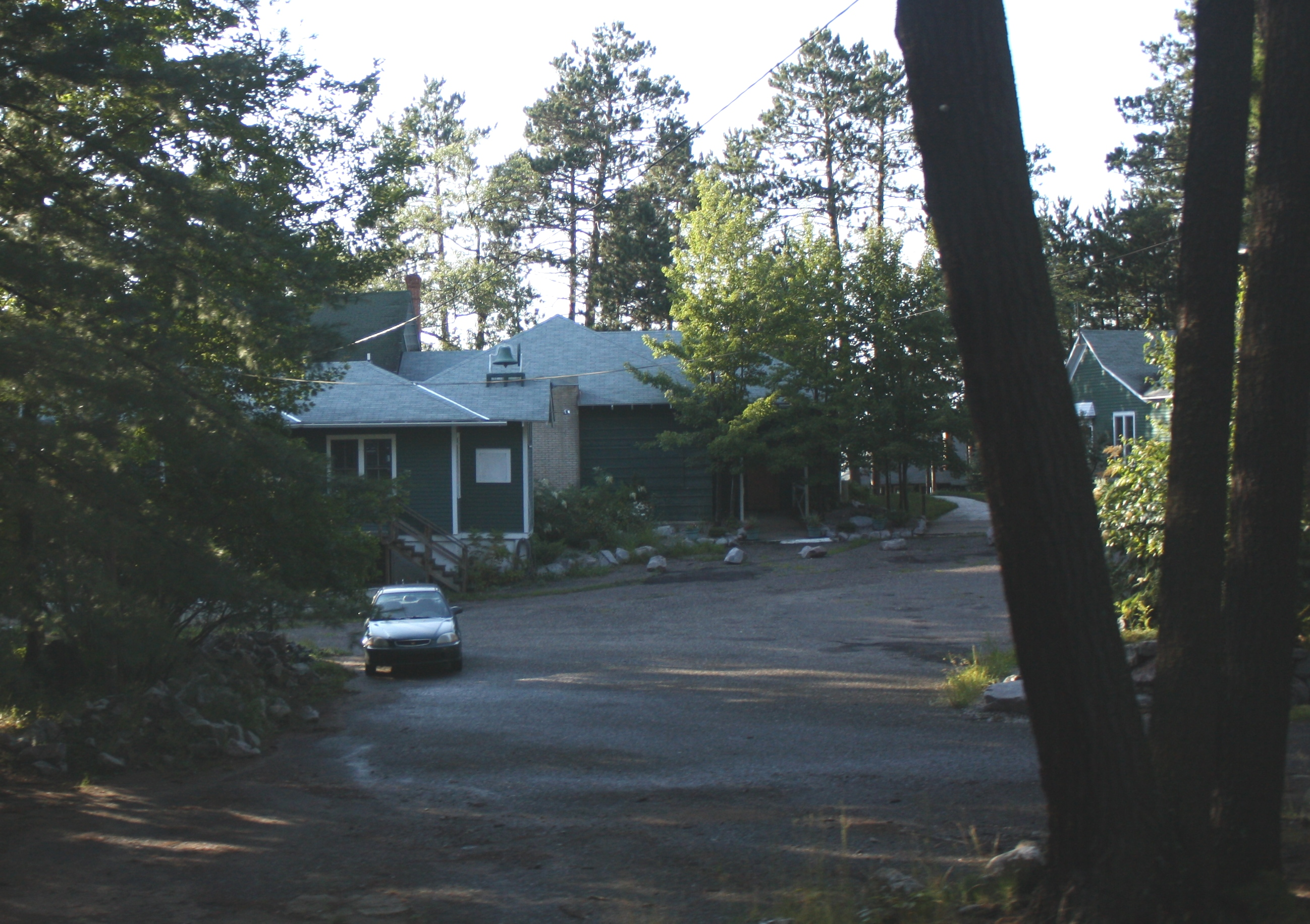 The Everett Resort near Eagle River, Wisconsin. It is listed on the National Register of Historic Places.